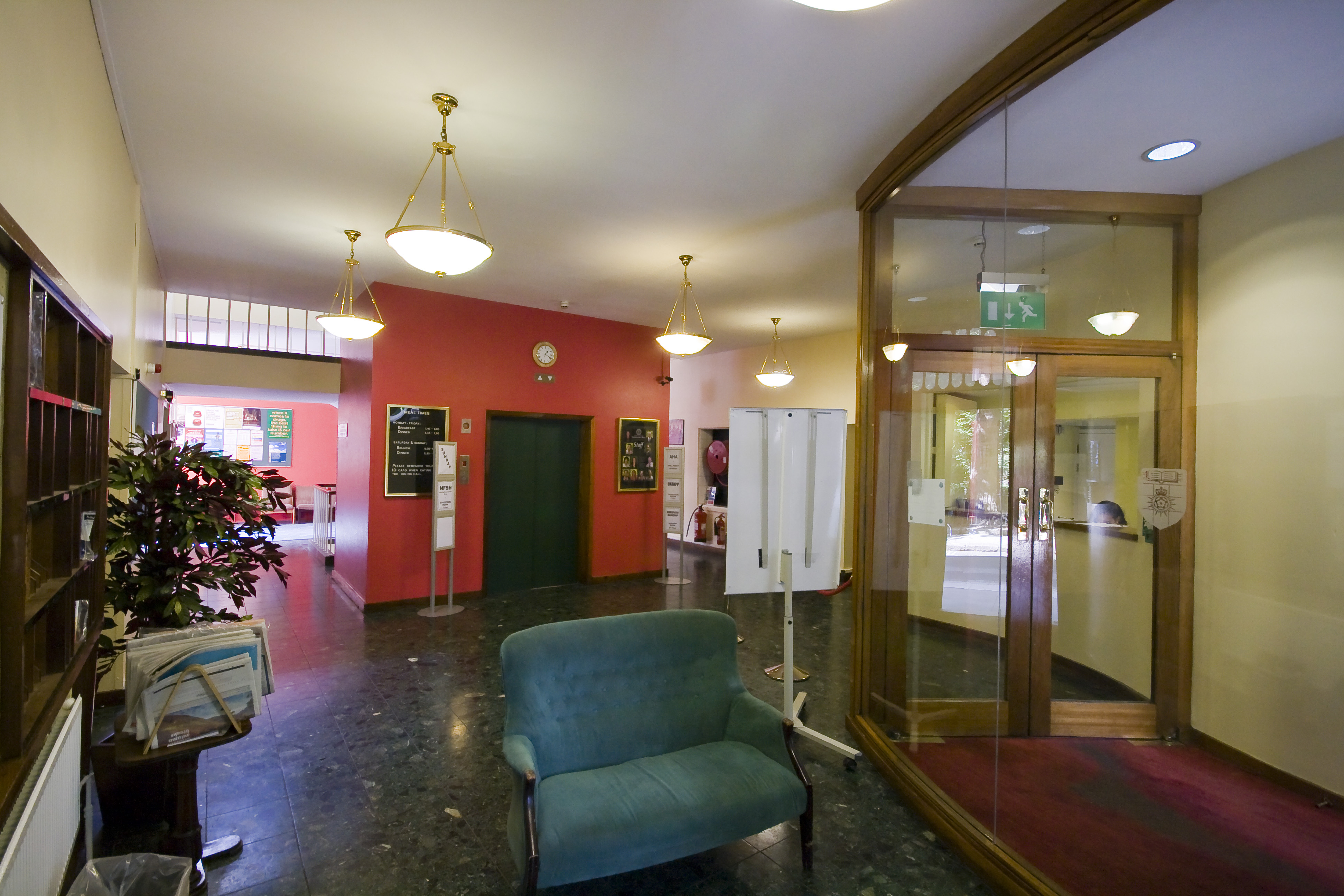 Connaught Hall - The reception lobby